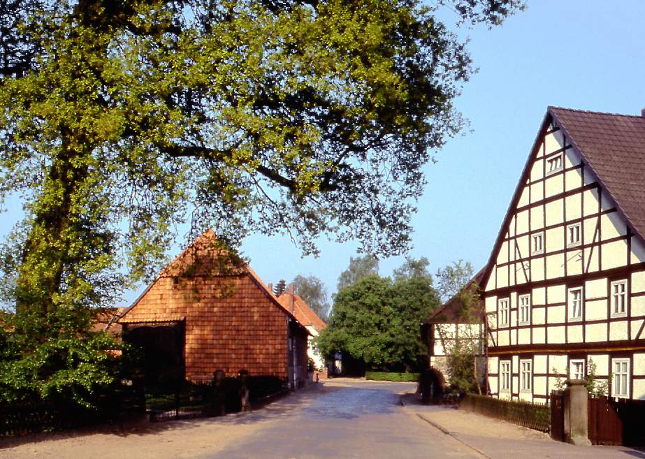 Village street in Hallerburg in Nordstemmen, district Hildesheim, Lower Saxony, Germany.